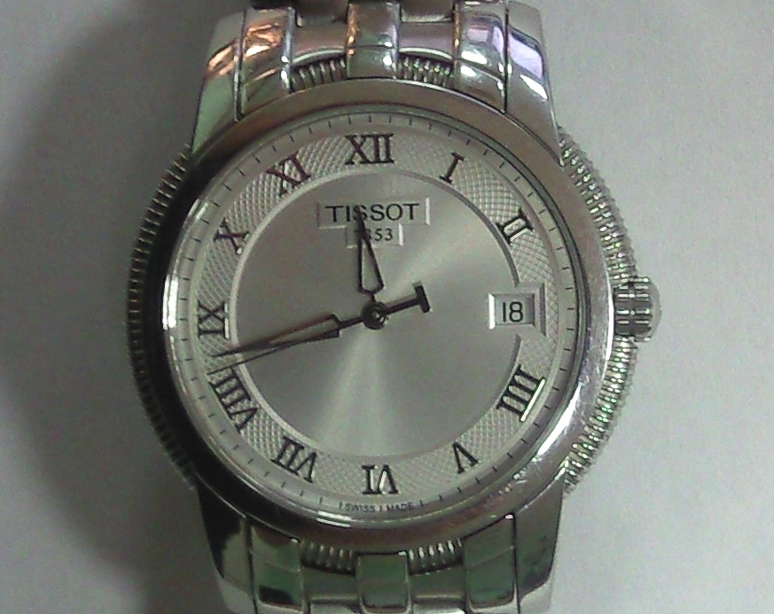 The face of Tissot watch